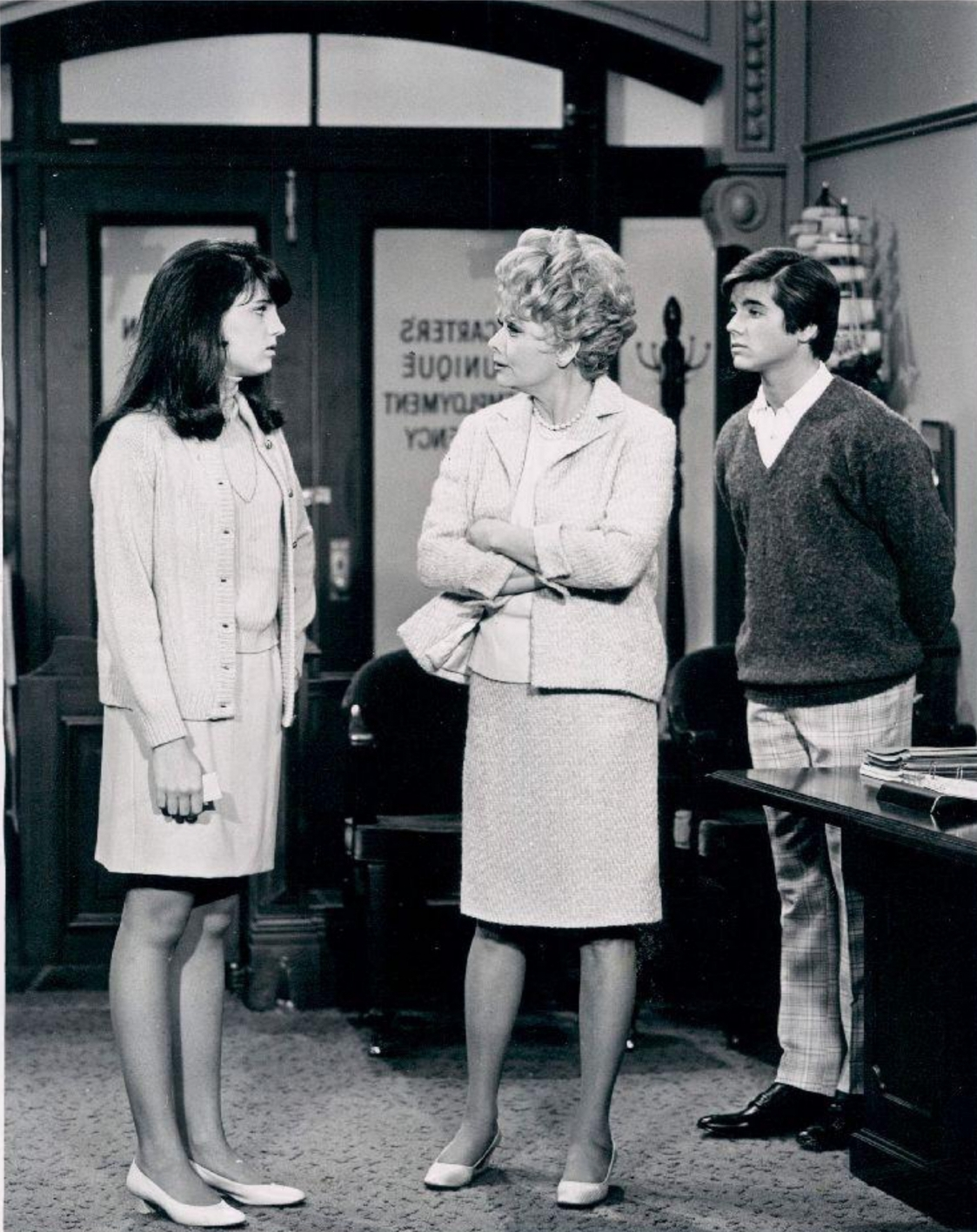 Publicity photo from Here's Lucy. Pictured are Lucie Arnaz, Lucille Ball and Desi Arnaz, Jr. The scene is Carter's Unique Employment Agency where Lucy works.